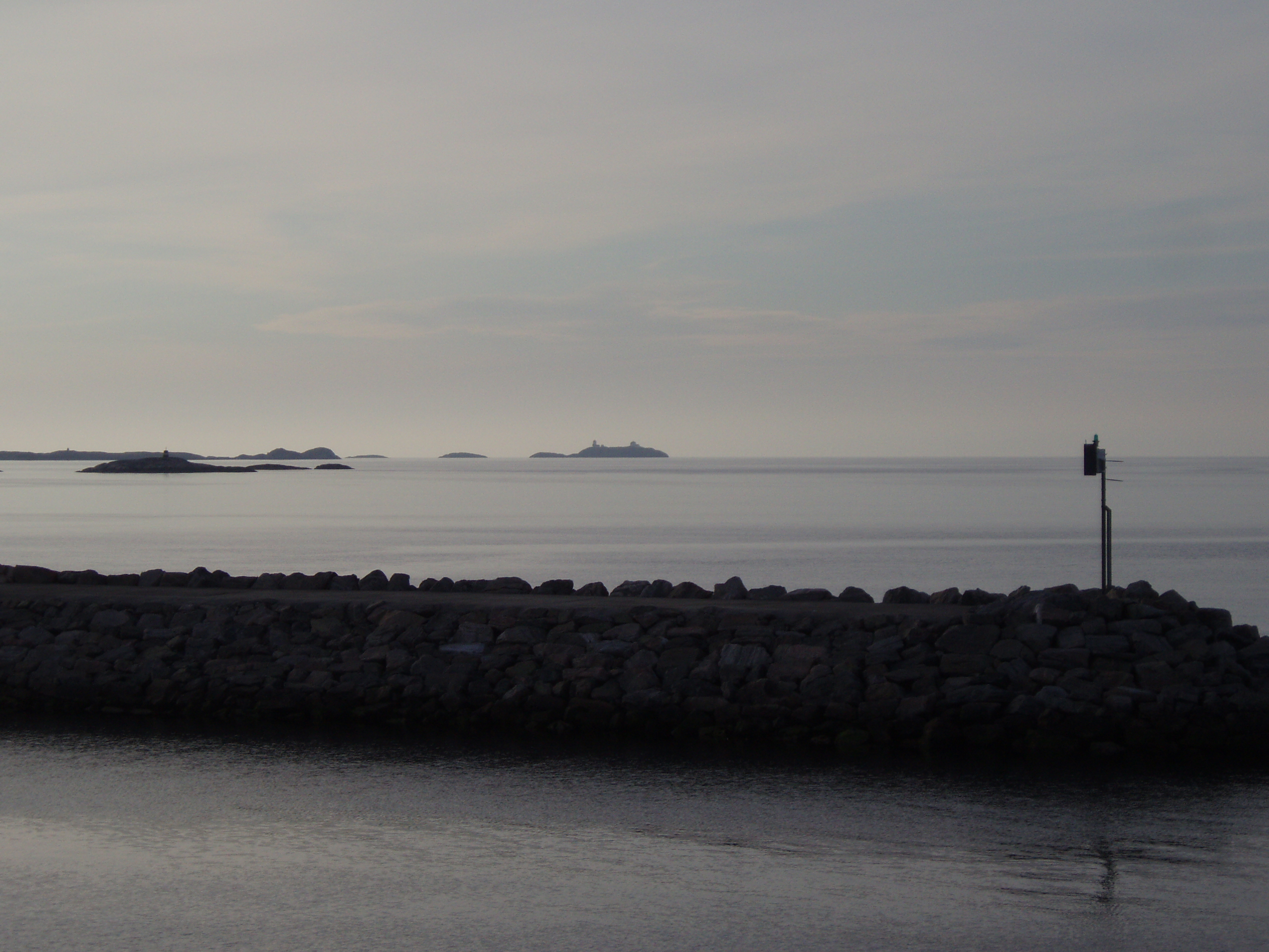 Fedjefjorden in fair weather. Holmengrå seen in the middle of the picture.